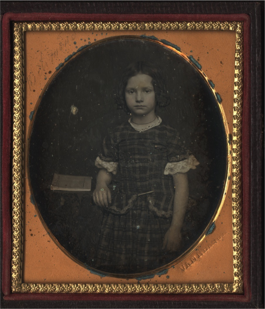 Mary Mildred Botts a young "white slave" (or perhaps octaroon) who appeared with Senator Charles Sumner on an abolition platform in 1855.